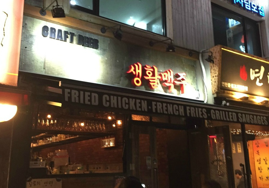 생활맥주